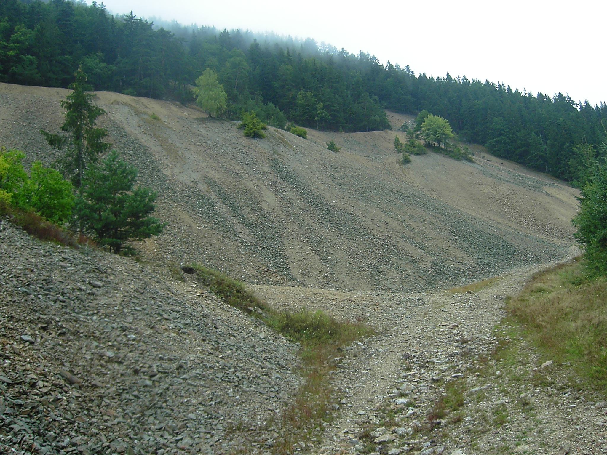 Slag heaps after underground mining of copper ore (during 15-19 centuries), Ľubietová (Libethen), Slovakia.